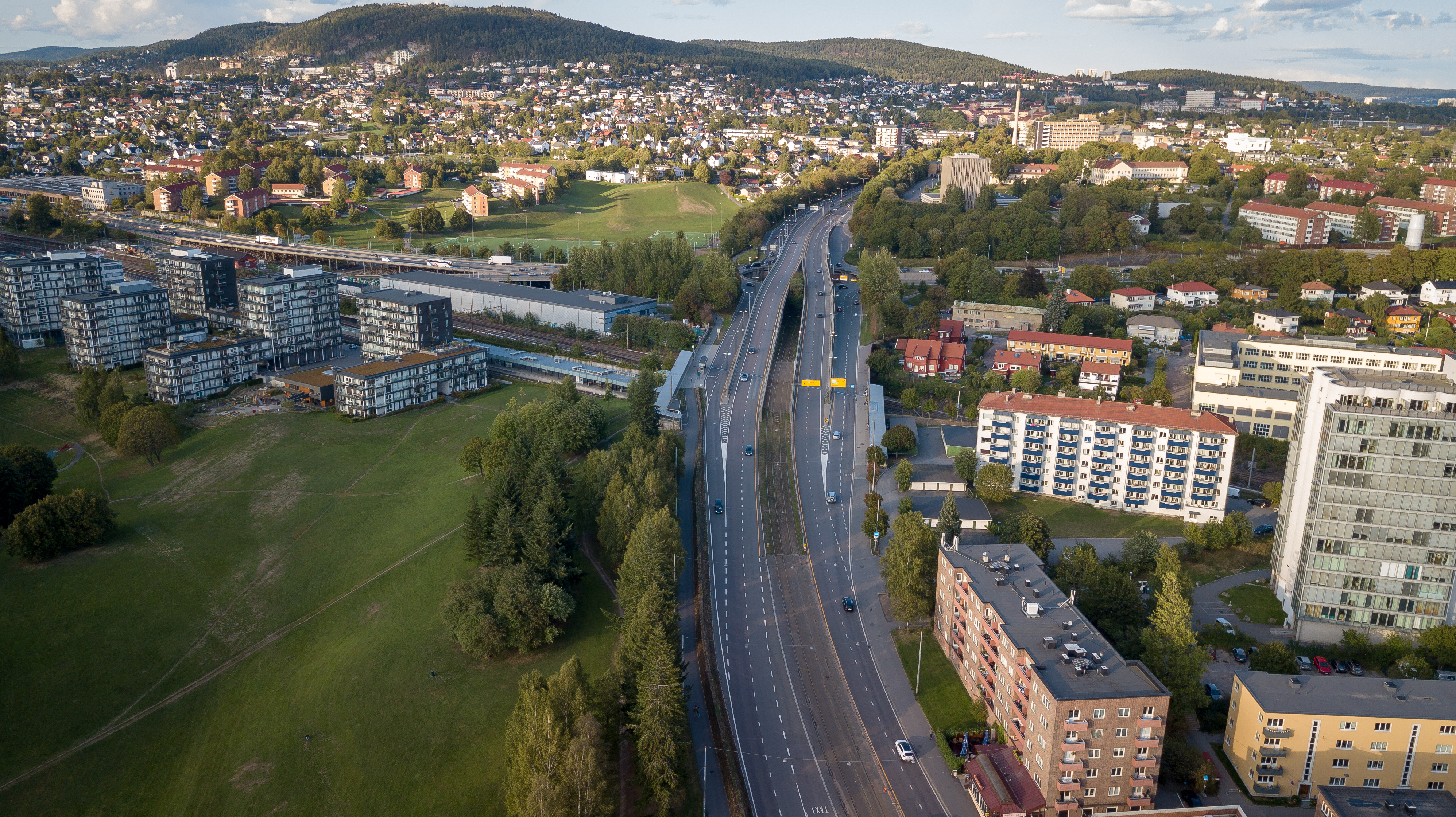 Aerial photograph of Sinsenkrysset in Oslo